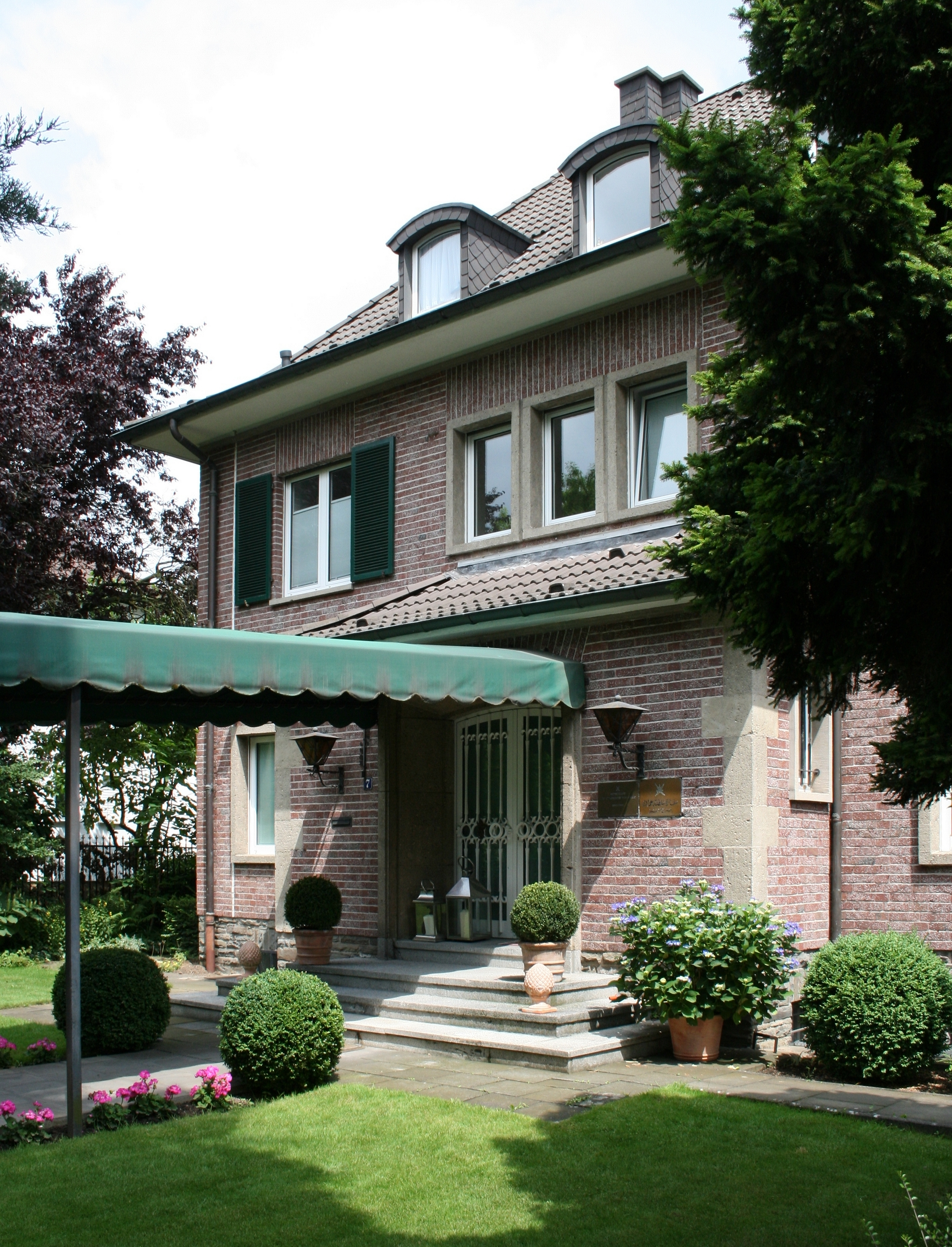 The (former) german residence of the ambassador of the Sultanate of Oman in Bonn-Bad Godesberg